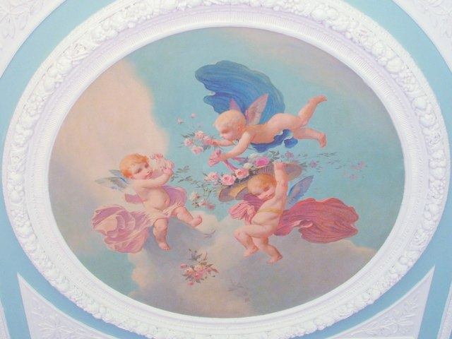 The Angel Room (ceiling detail) This is one of several heavenly scenes on the ceiling of the Angel Room, a large downstairs room in Overtoun House. The building has been used by various groups throughout the years. From 1947 to 1970, it served as a maternity hospital.